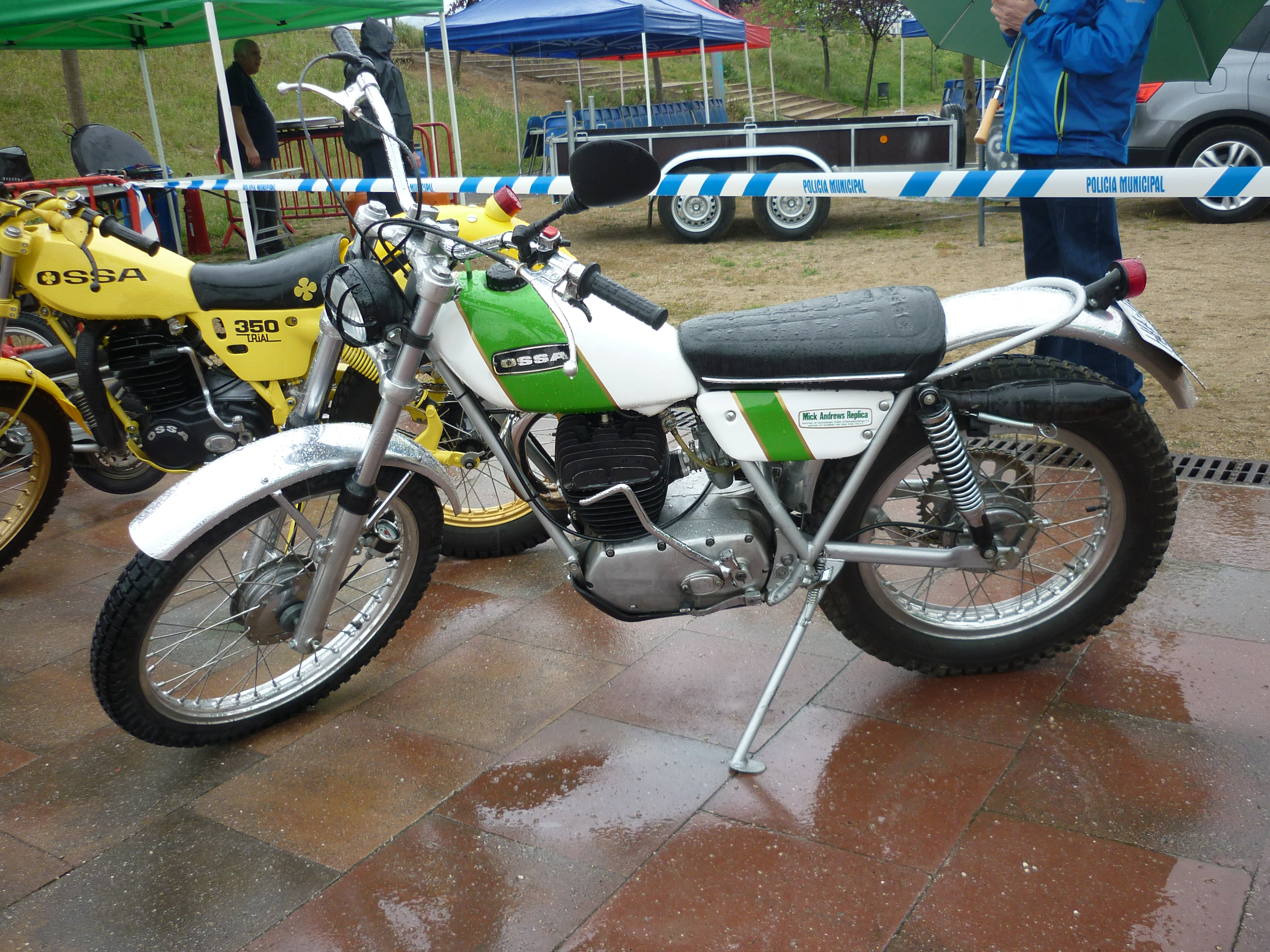 OSSA M.A.R. 250, 1972